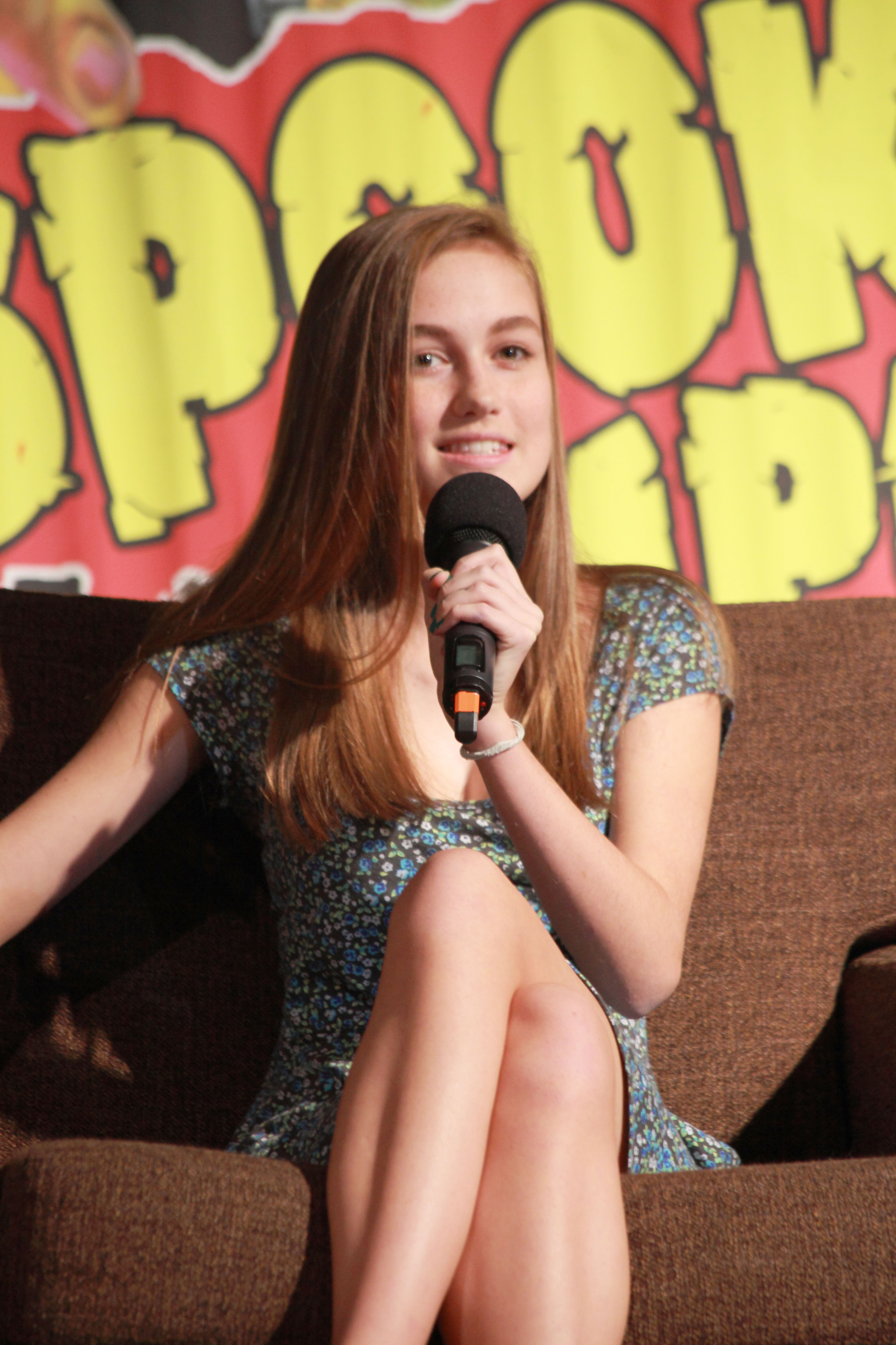 Madison Lintz ("Sophia") from "The Walking Dead" at Spooky Empire's Ultimate Horror Weekend 2014 held in Orlando, Florida.